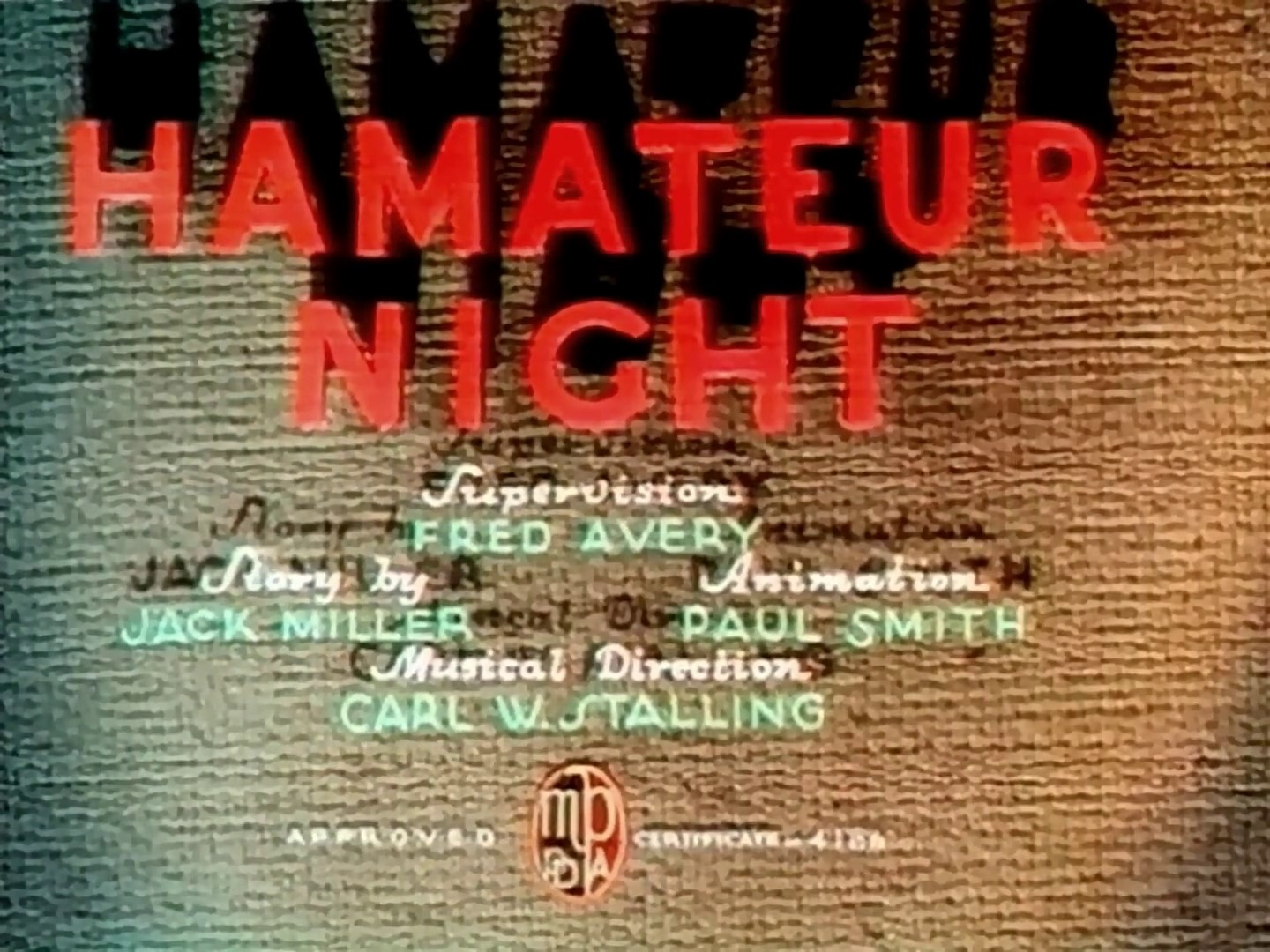 Title card for Hamateur Night, a seven-minute animated short film released to theaters by Warner Bros. on January 28, 1939. Directed by Tex Avery and written by Jack Miller, the film was a part of the Merrie Melodies series produced by Leon Schlesinger and distributed by The Vitaphone Corporation. The premise of the film is rather simple; it features a vaudeville-style amateur talent night wherein successive performers are mocked and jeered by the audience for their bad acts. The primary character of this short is Egghead, a prototype of Elmer Fudd who lacks the speech impediment of the character he evolved into.